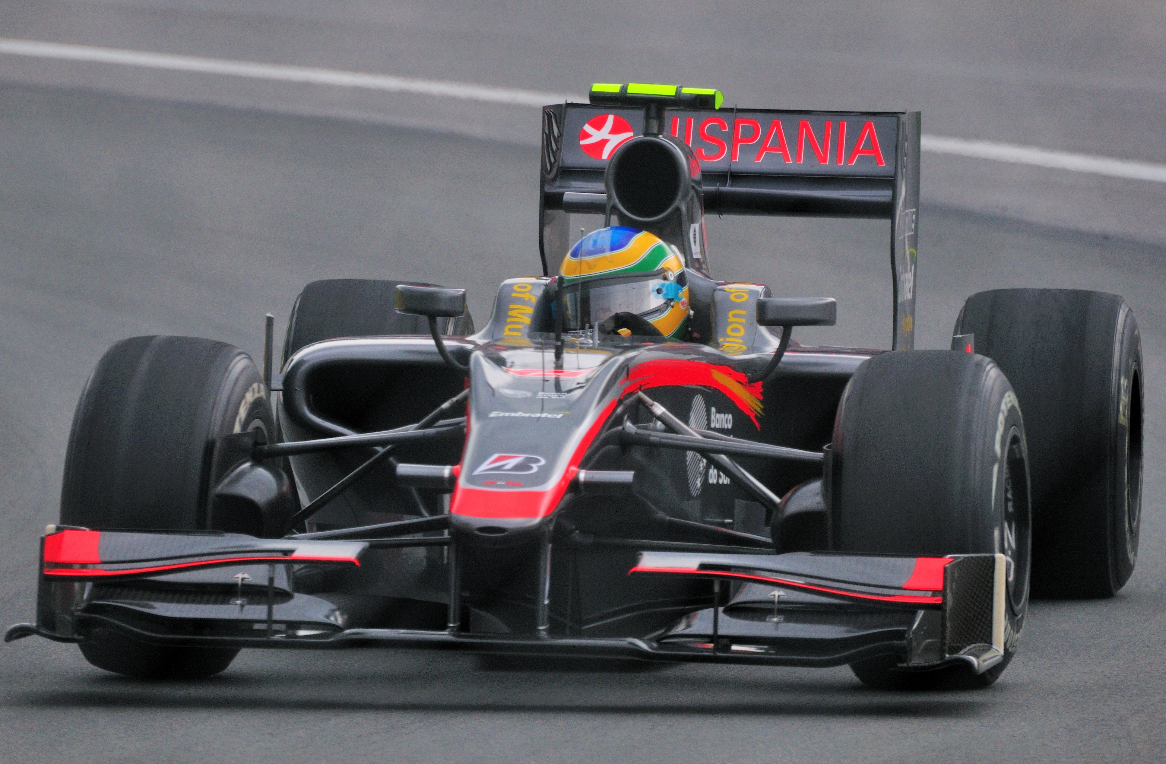 Hispania Racing driver Bruno Senna of Brazil in the Senna Corner (2010 Canada GP)